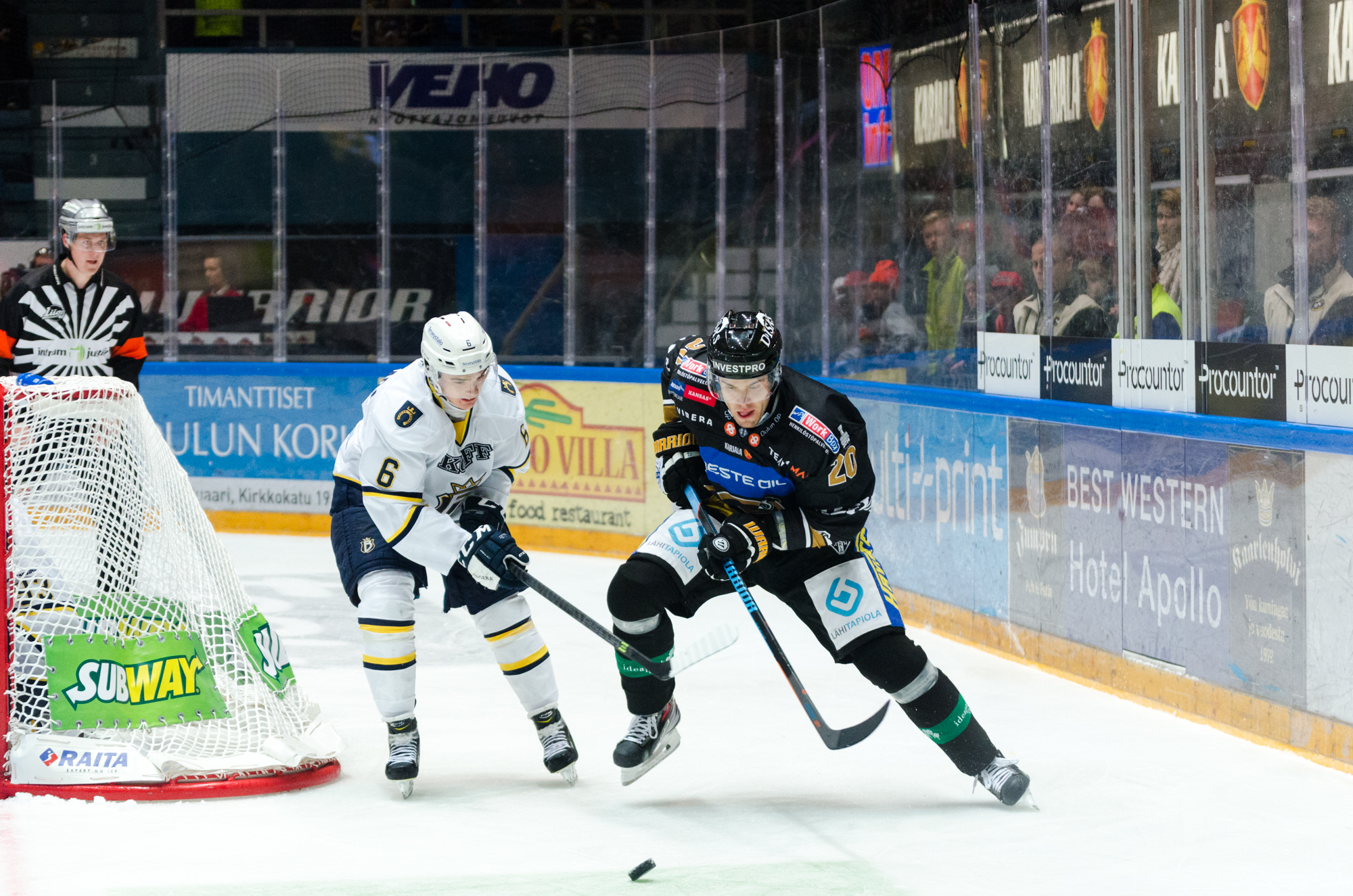 Simon Suoranta on 20th of September 2014 in Kärpät - Blues match.